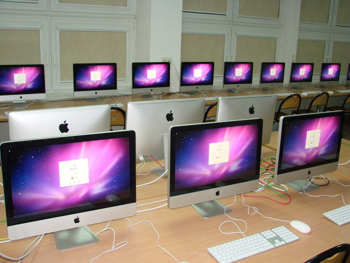 The Computer Graphics Lab in The Institute of Applied Computer Science of Lodz University of Technology